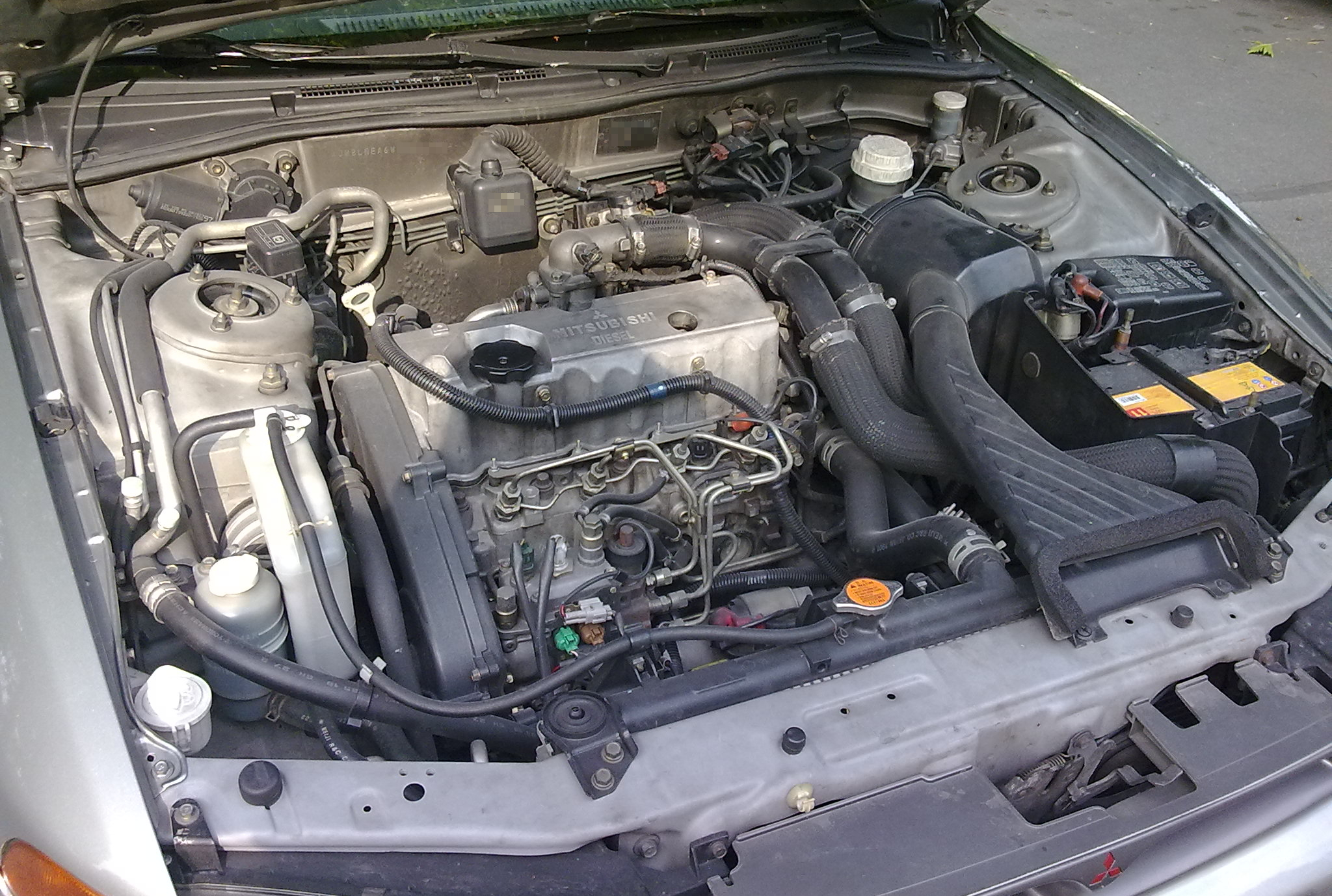 Mitsubishi 4D68 engine mounted on 98' Galant Break (Legnum)